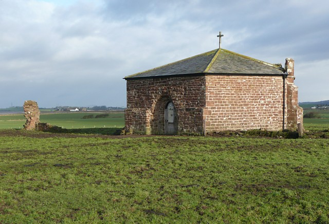 The remains of Cockersand Abbey, Thurnham The Premonstratensian Abbey was founded in 1190. All that remains is this restored Chapter House and some nondescript columns of ruined masonry. (Nikolaus Pevsner, Buildings of England).